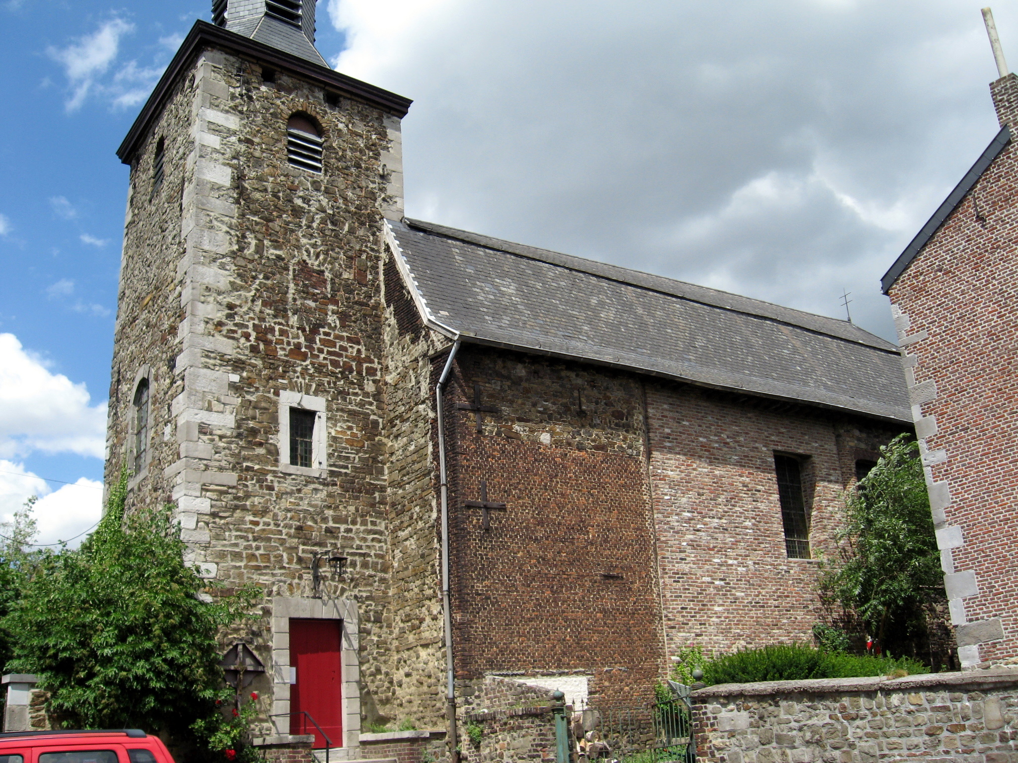 Church of Our Lady of the Mount Carmel in La Xhavée, Wandre, Liège, Belgium